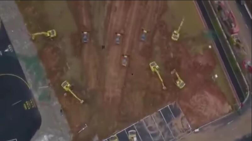 Leishenshan Hospital under construction